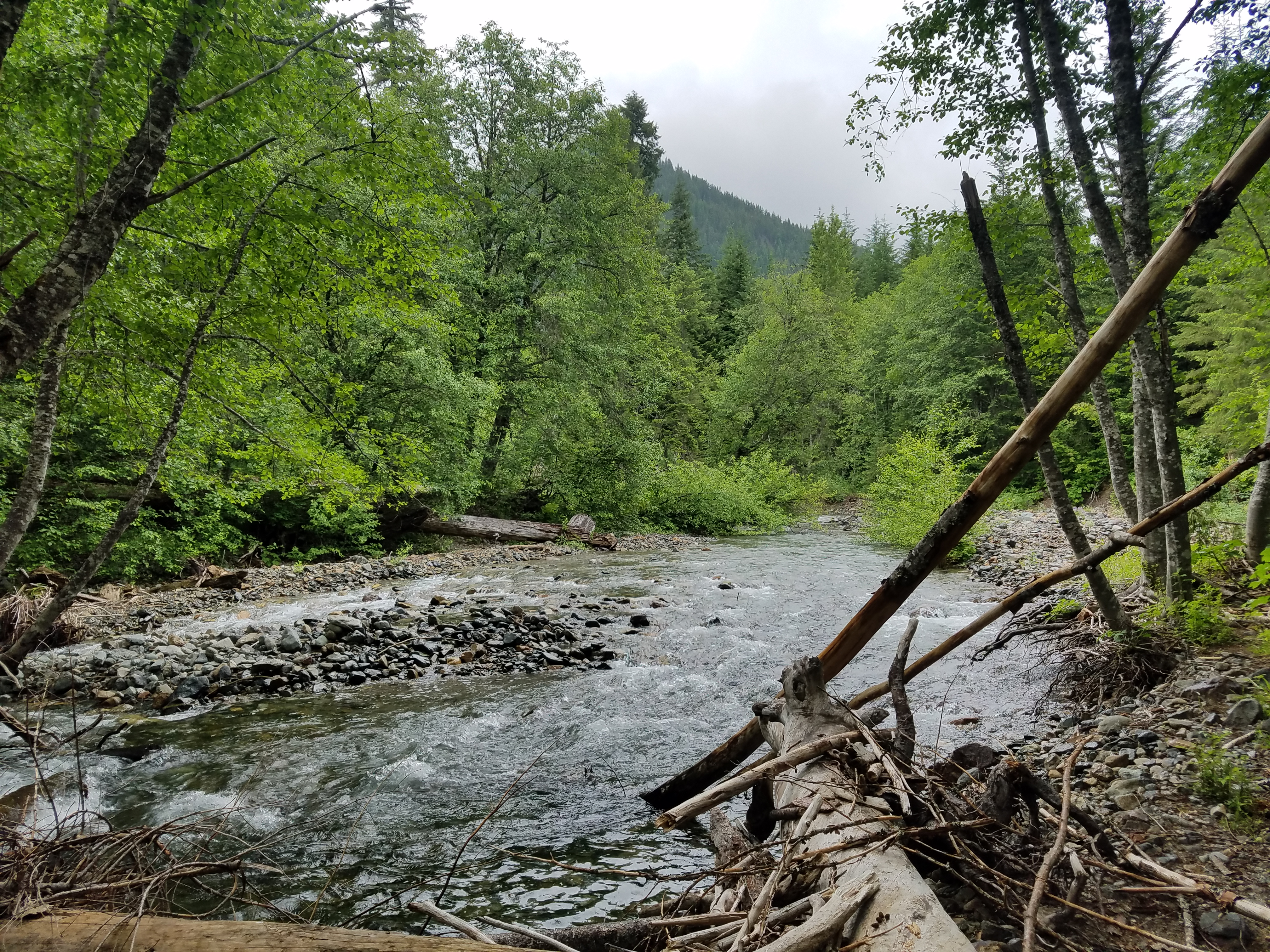 The Kachess River in Washington state, USA, a ways upstream of where the river enters Kachess Lake. Taken along the Mineral Creek Trail